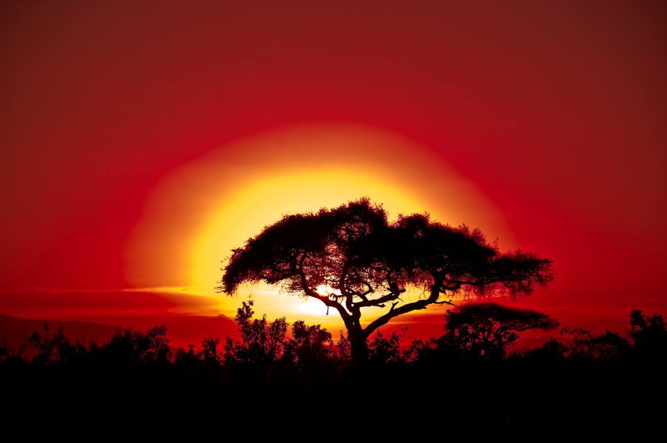 A sunset in Africa, Kenya for a safari.